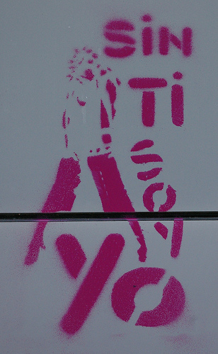 Radical feminist graffiti in Spain. It reads: Sin ti soy yo (Without you, I am)